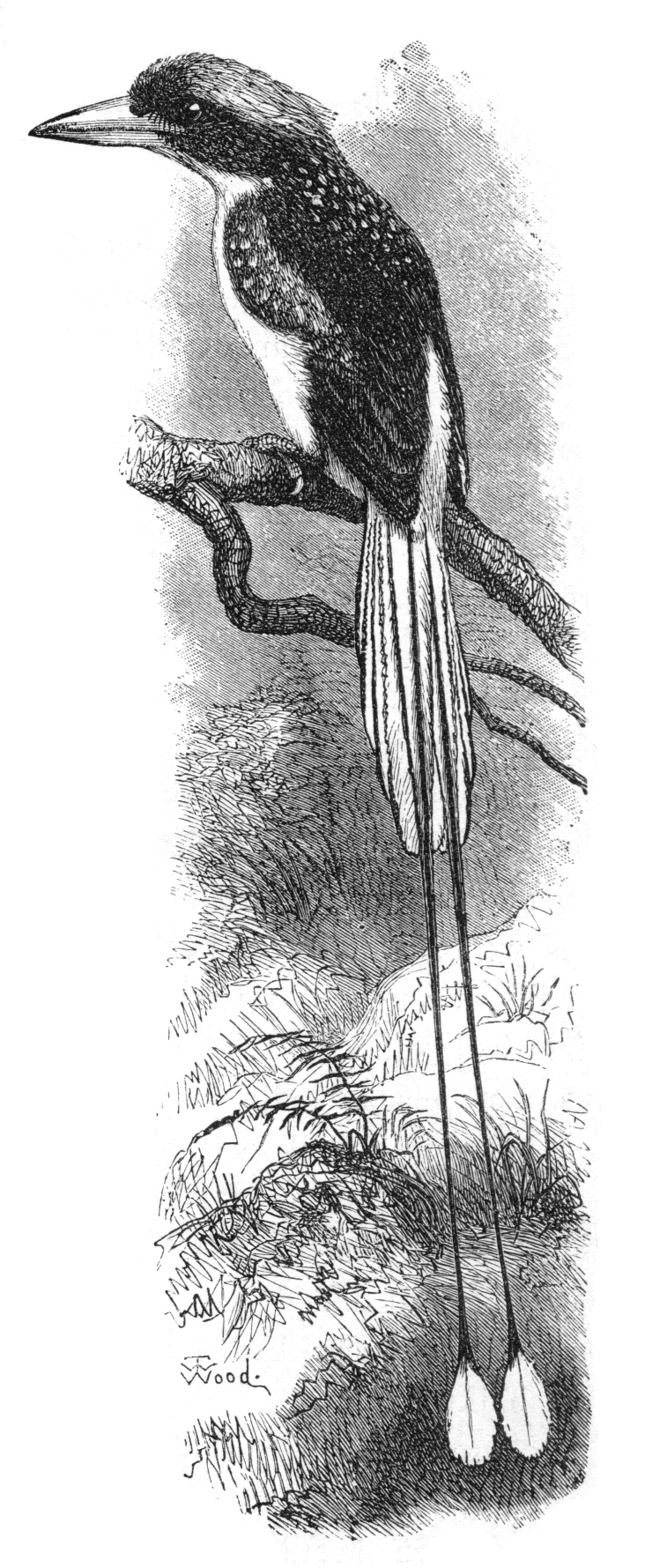 Caption reads "RACQUET-TAILED KINGFISHER".